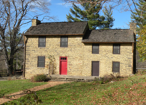 Picture of the James Miller House (aka "Stone Manse") at the Oliver Miller Homestead located at 1 Stone Manse Drive in South Park Township, Allegheny County, Pennsylvania, on November 14, 2009. The property on which this house sits was first settled by Oliver Miller in 1772. Oliver's youngest son James inherited the property in 1782. James was married in 1787 and had eight children. In 1794, the first fired gunshots of the Whiskey Rebellion occurred on the property. On July 15, 1794, two Federal revenue officers served a writ on William Miller (James' brother), but, after leaving the paper, they were met by an armed group of his neighbors. A shot was heard as the Federal revenue officers rode off, but neither man was injured. The family was later pardoned for any role they may have played in the rebellion. In 1808, James added a stone section to the original log house that his father had built. This addition met their needs until 1830, when James' son Oliver, and his wife, came to live with them. At this time, the log house was replaced with a large stone section making it the farmhouse as it stands today. Five generations of Millers lived at this homestead until 1927, when Allegheny County purchased the land from the last remaining Miller descendant for the formation of South Park. Today, the homestead is a public museum that commemorates pioneer settlers of Western Pennsylvania, and the house is listed on the National Register of Historic Places.